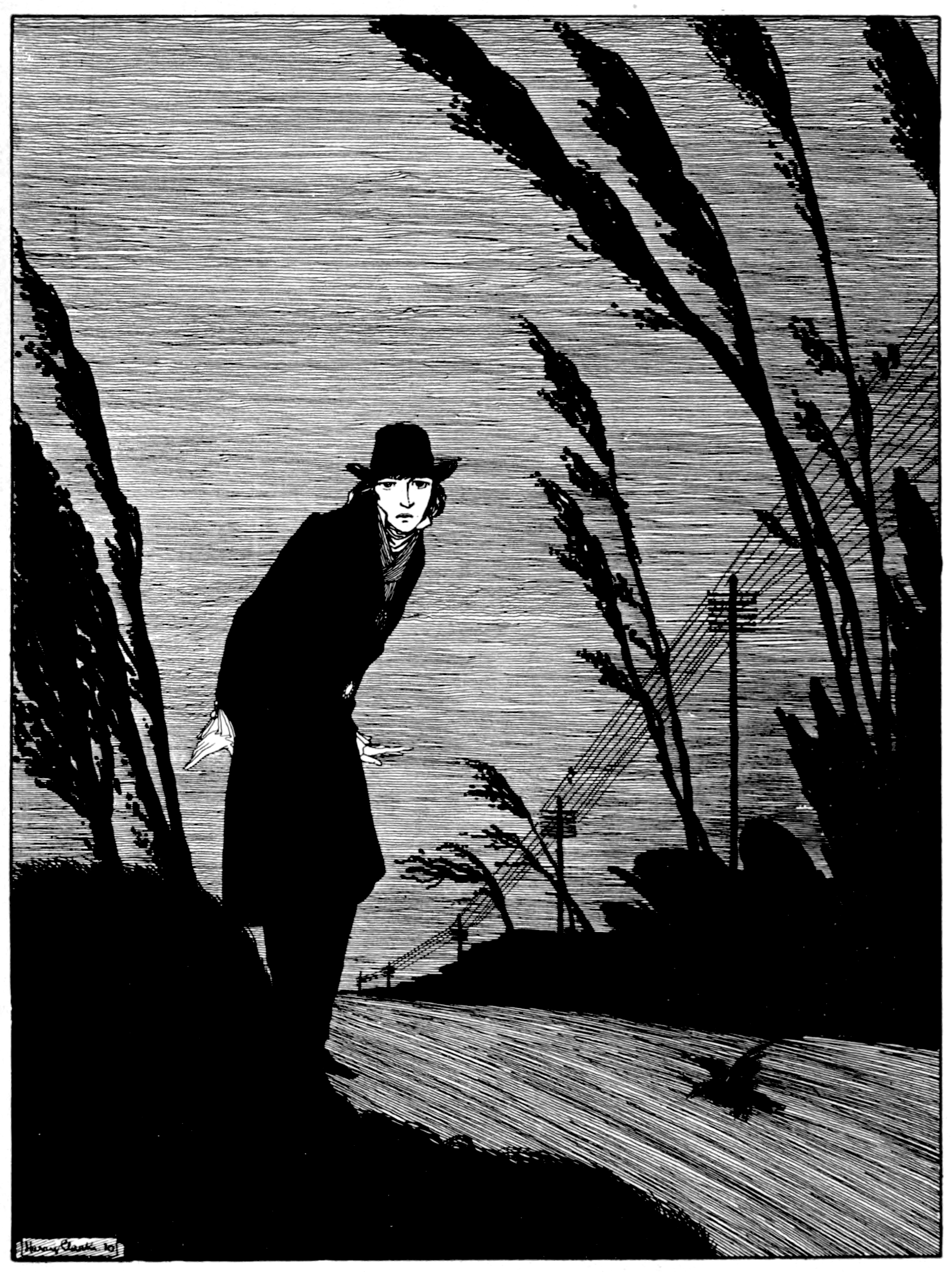 Illustration for The year's at the spring; an anthology of recent poetry ([1920]) New York, Brentano's. Converted to greycale; B&W points adjustment.